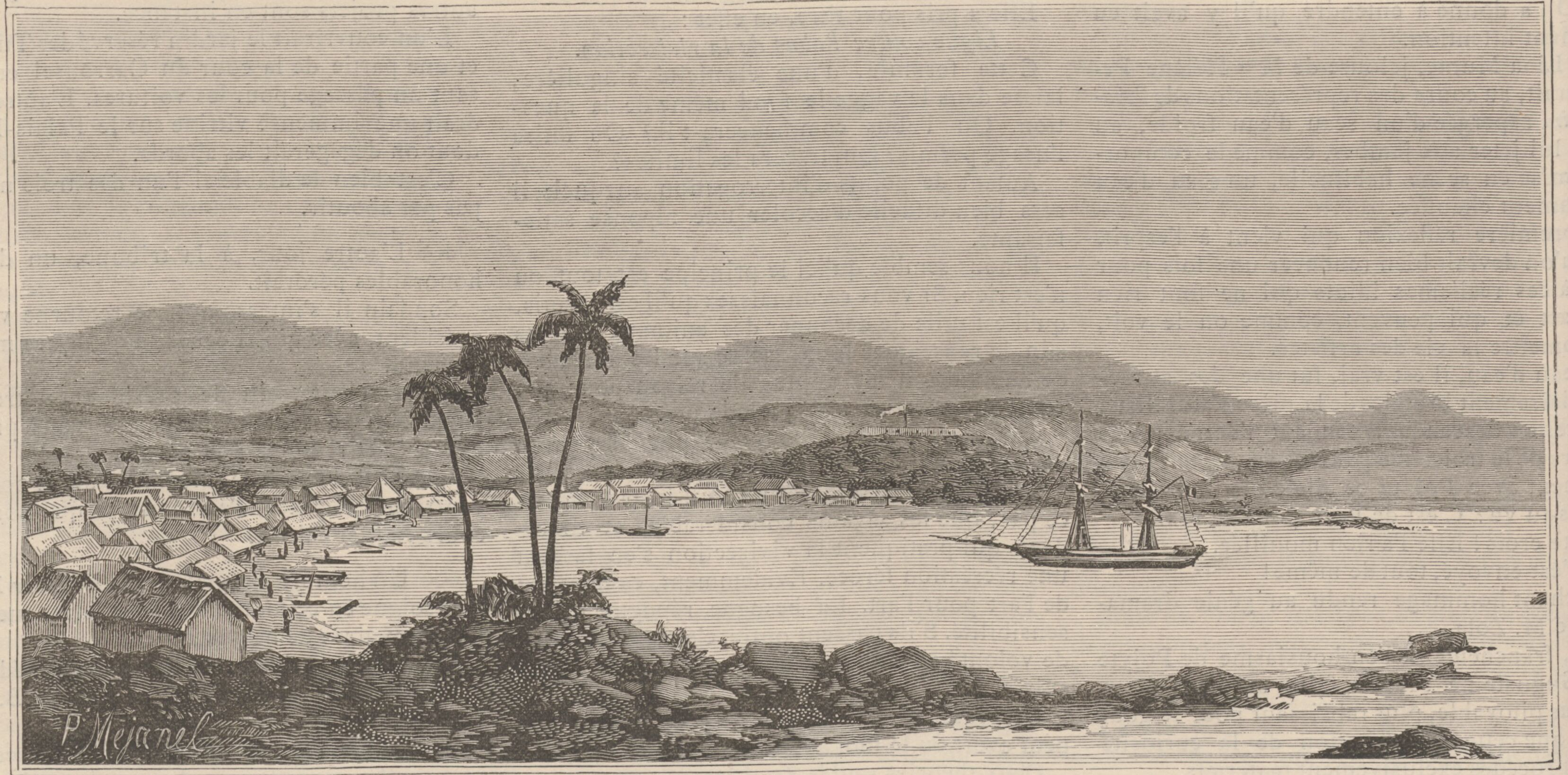 Tamatave_bombarded_and occupied by_the_French_11 June_1883